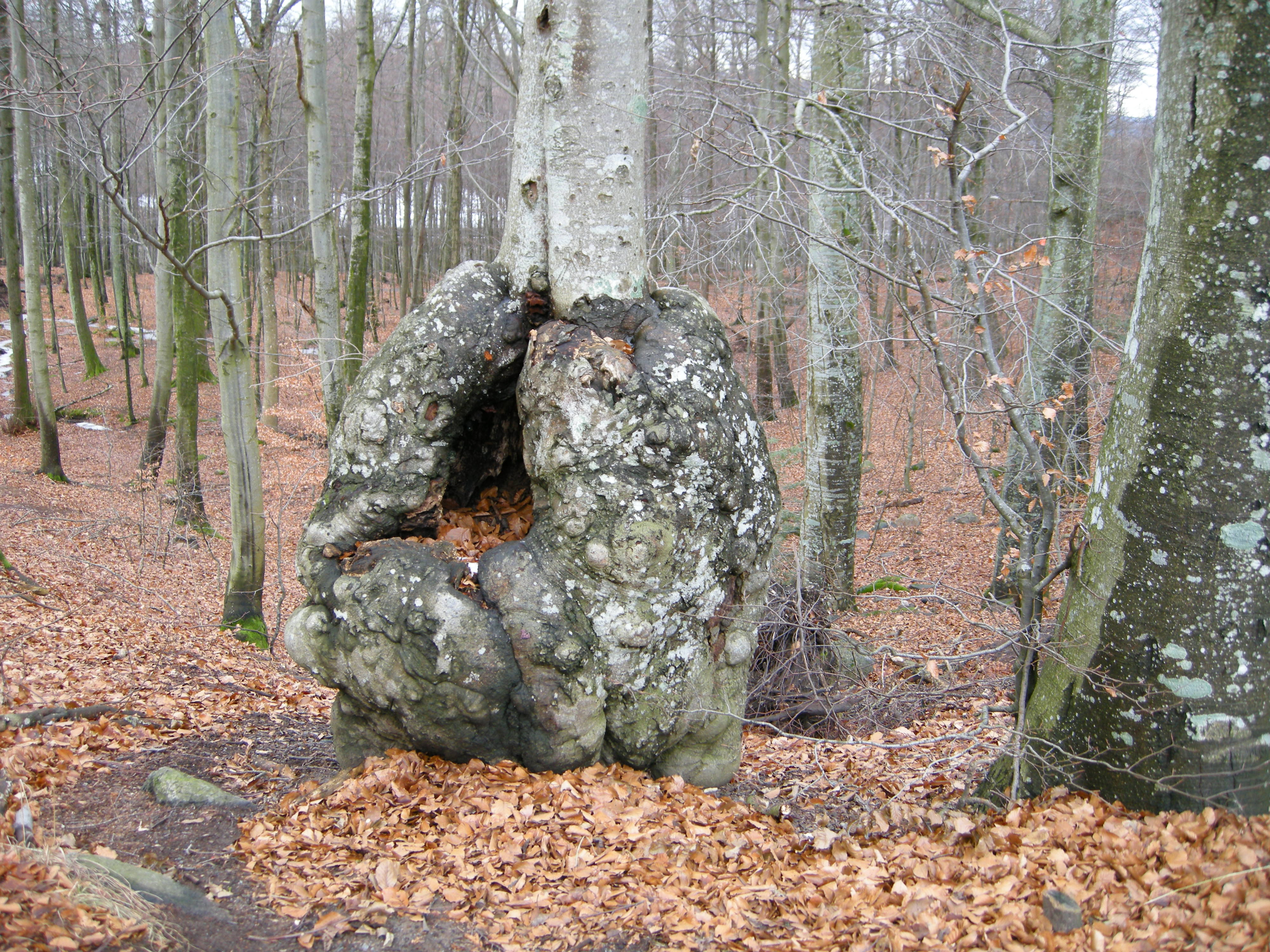 Beech - Fagus sylvatica Larvik Norway